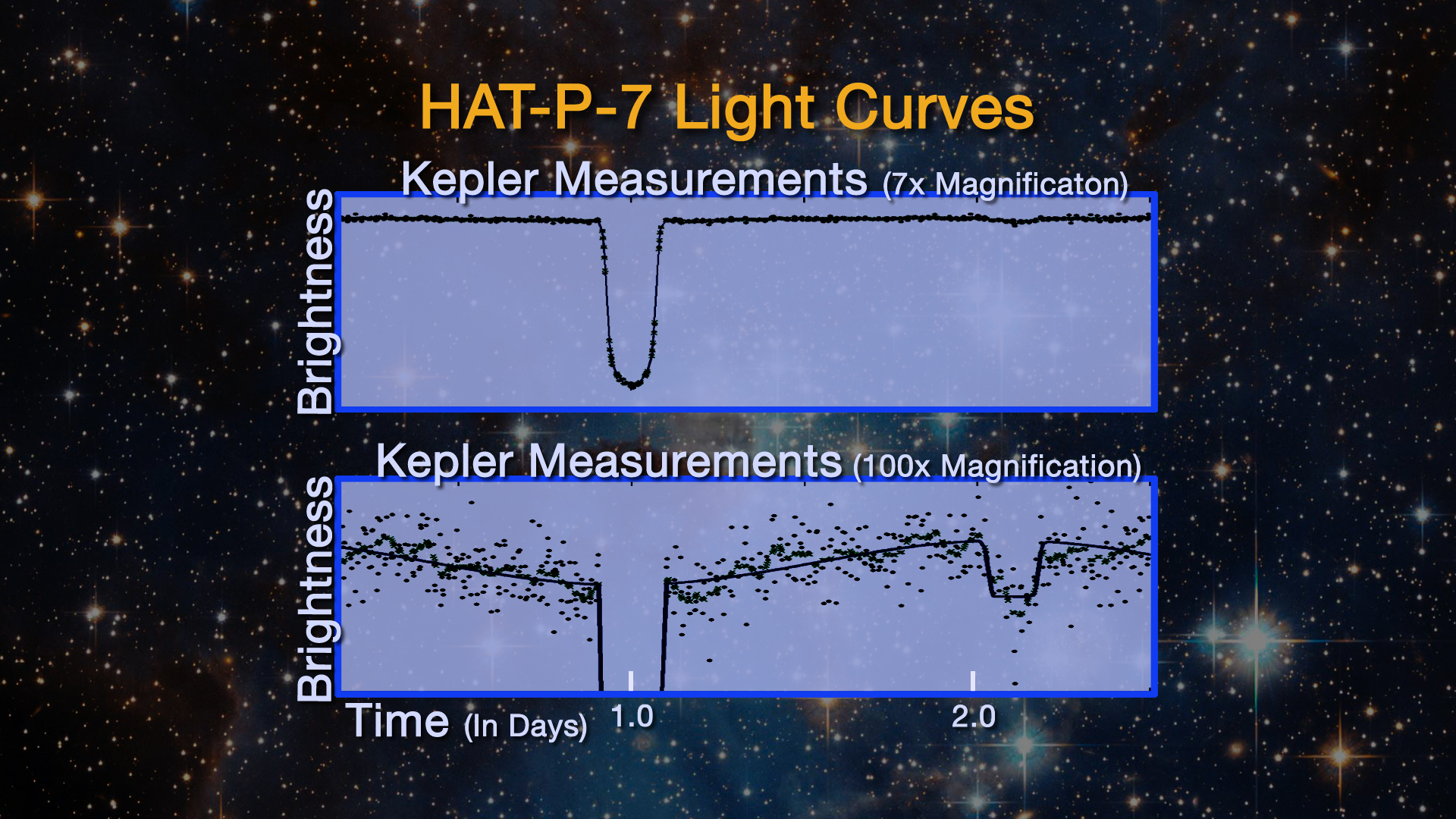 The Kepler measurements show the transit from the previously detected HAT-P-7. However, these new measurements are so precise, they also show a smooth rise and fall of the light between transits caused by the changing phases of the planet, similar to those of our moon. This is a combination of both the light emitted from the planet and the light reflected off the planet. The smooth rise and fall of light is also punctuated by a small drop in light, called an occultation, exactly halfway between each transit. An occultation happens when a planet passes behind a star.